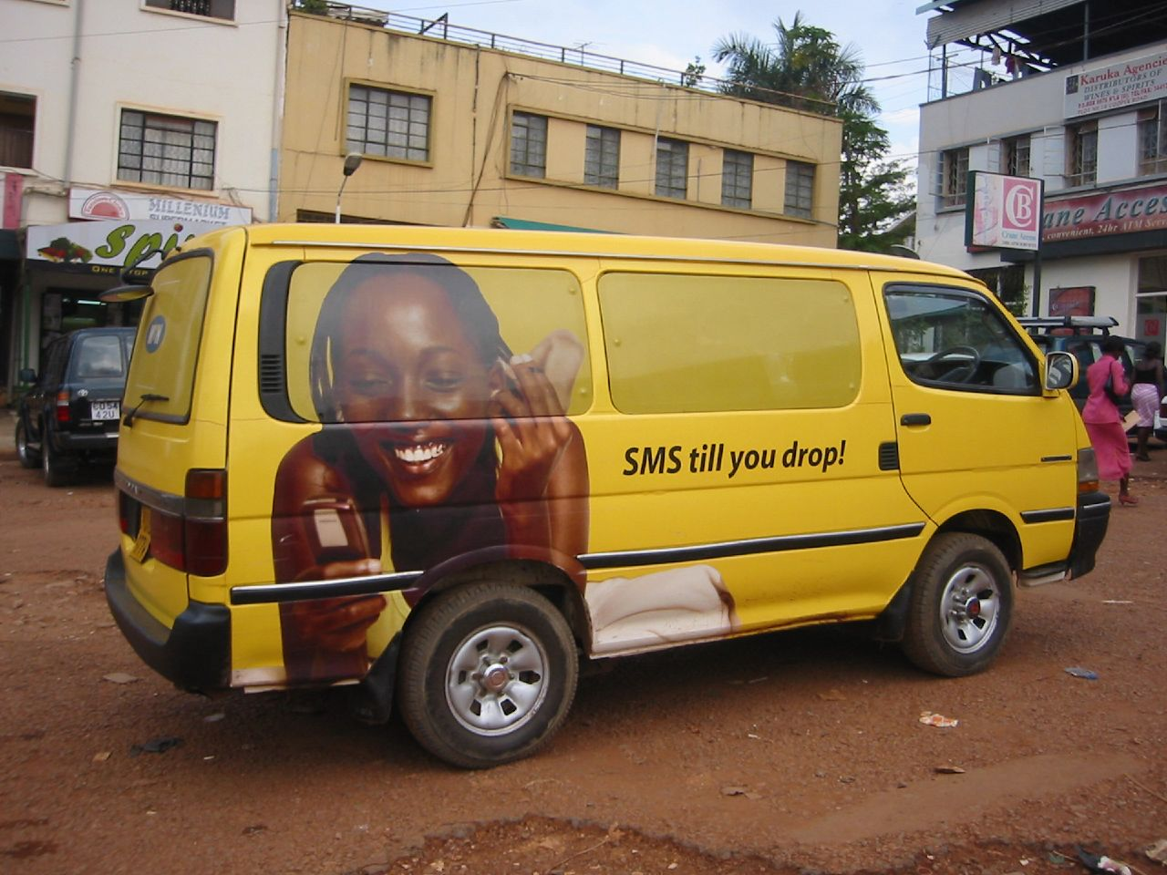 Mobile phones are enabling African countries to leapfrog generations of communications technology as they spread rapidly. Usable with attribution and link to